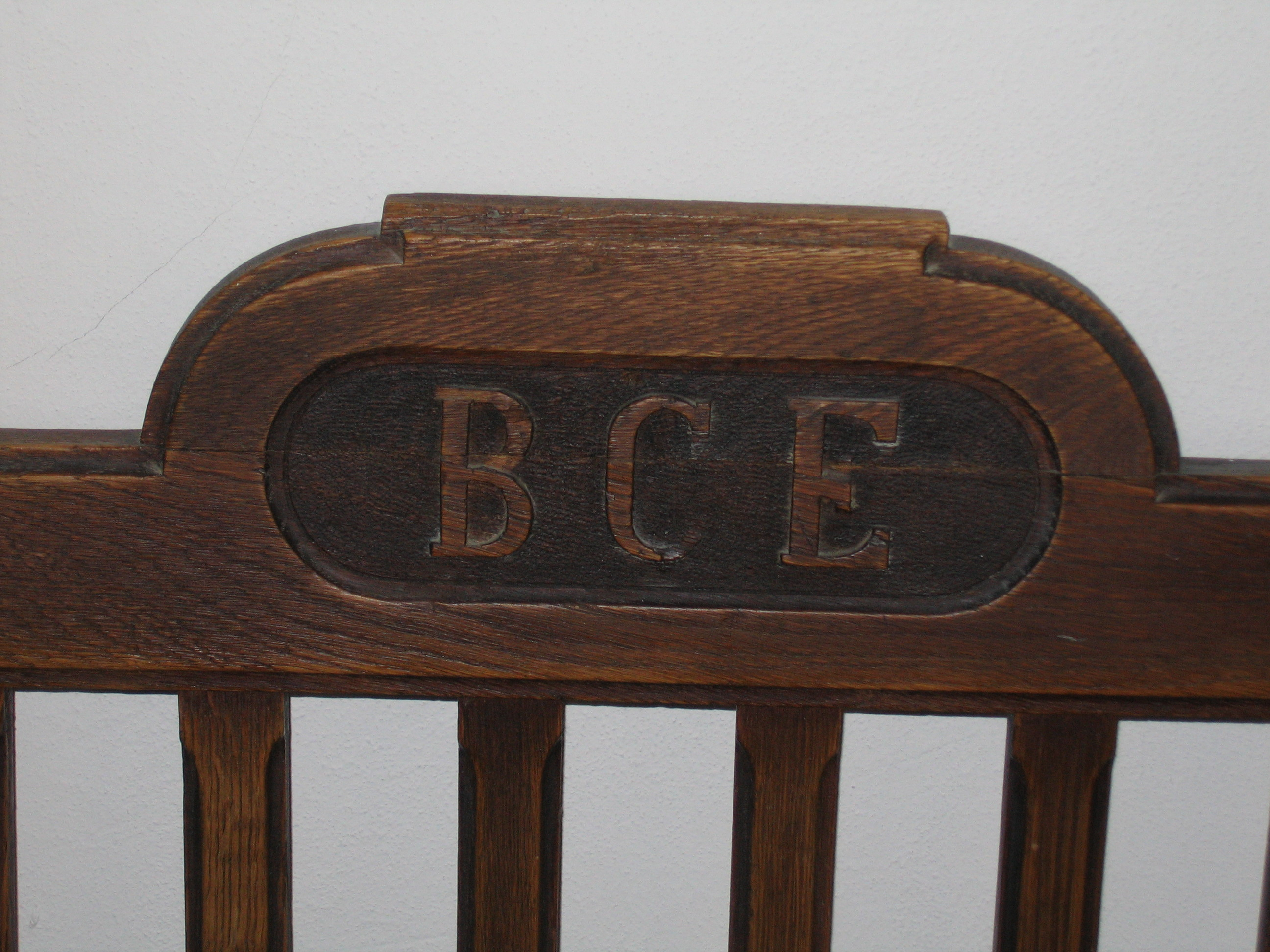 Logo of Berlin-Coblenzer Eisenbahn ("Kanonenbahn") - Railwayline Berlin - Koblenz